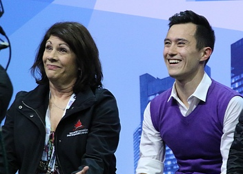 Patrick Chan and his coach Kathy Johnson during the 2016 World Championships